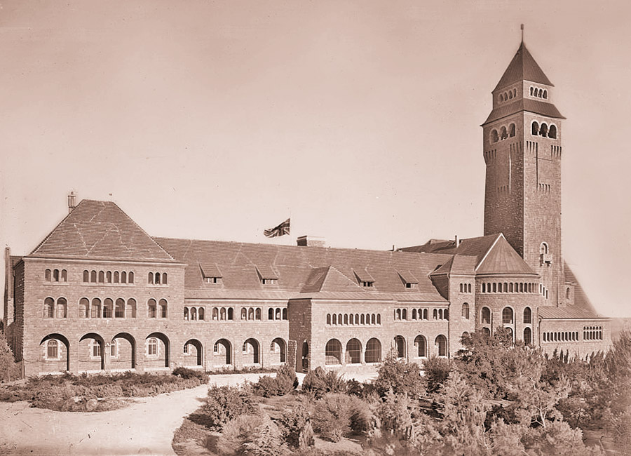 image processing of Augusta Victoria held by the Brits, 1921